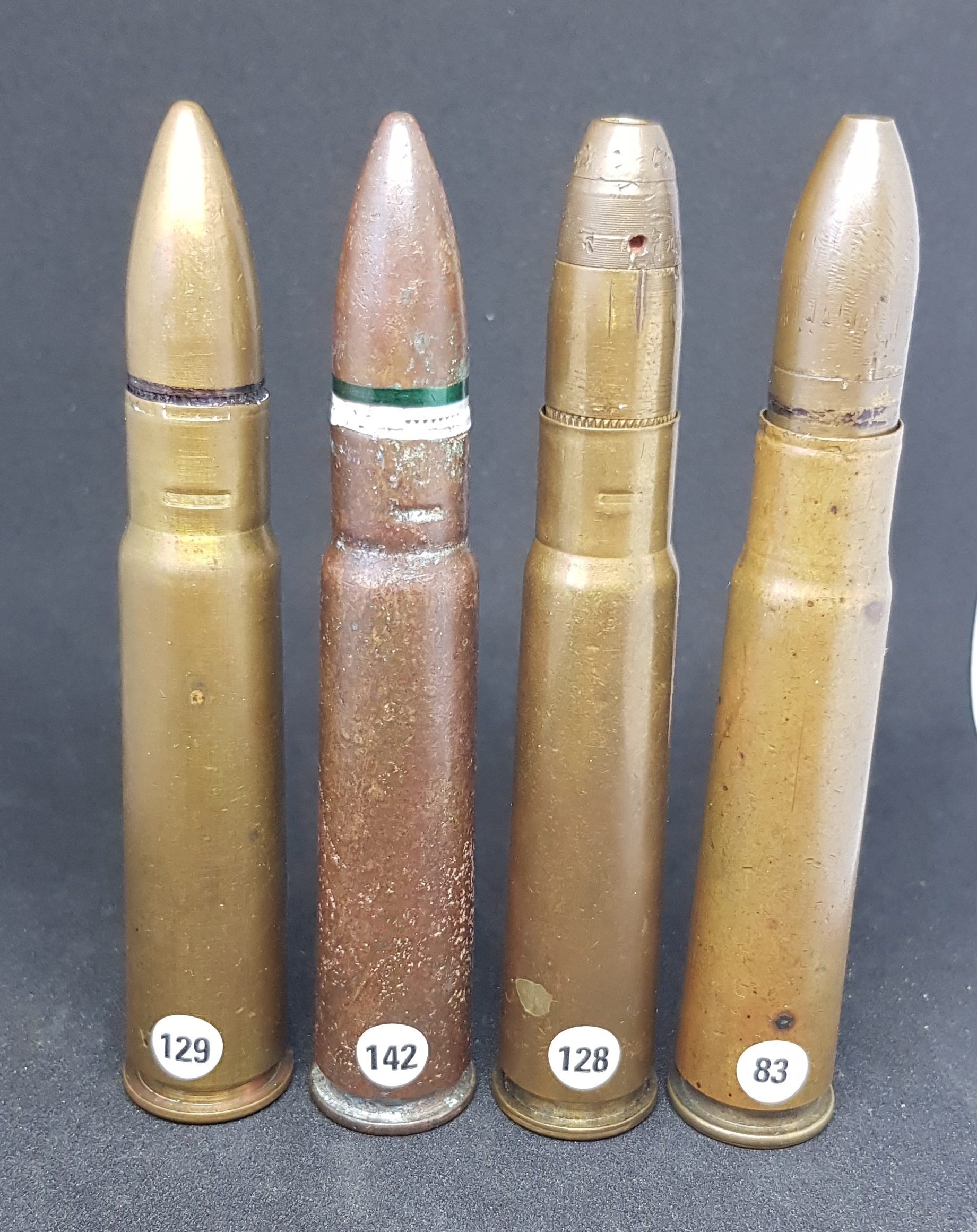 From left to right: AP-T (red trace), AP-T (white trace), Ma 103 Explosive Incendiary (two-piece fuze, traces of white seal are still present in the knurles on the projectile), Ma 102 Explosive indendiary.